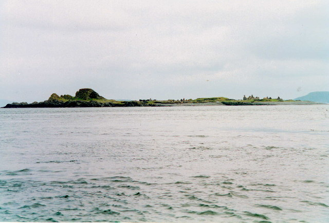 Belnahua, Inner Hebrides, Scotland